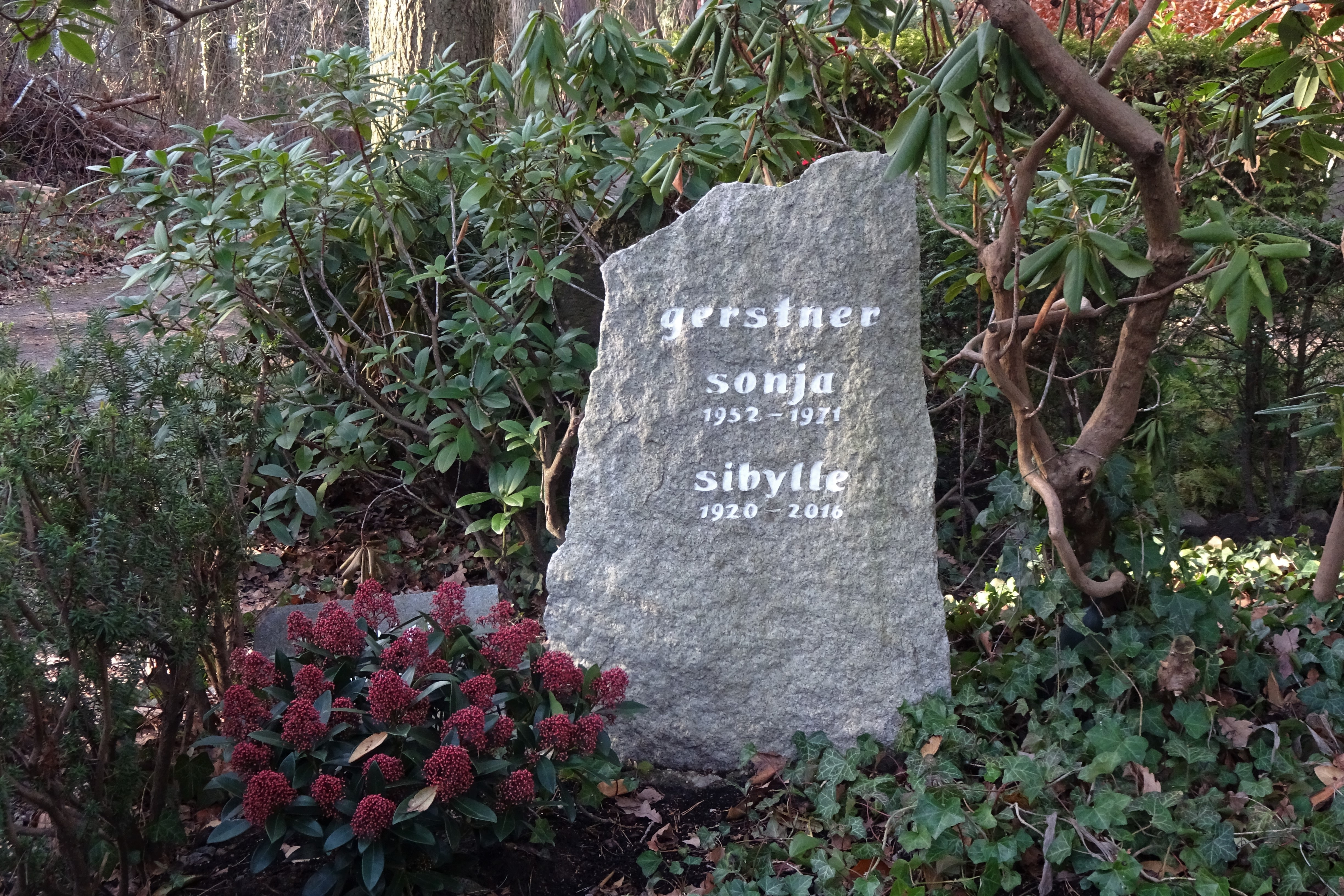 Grave of German costume designer, artist and fashion writer Sibylle Gerstner and her daughter Sonja Gerstner in Waldfriedhof Kleinmachnow in Kleinmachnow near Berlin